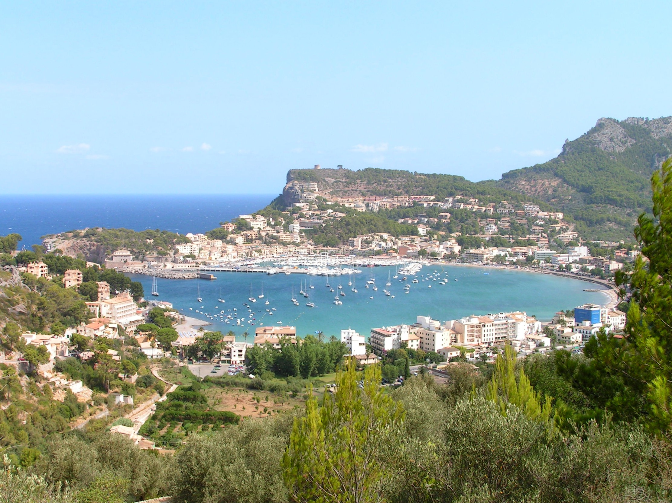 Port de Sóller viewed from hills to the south